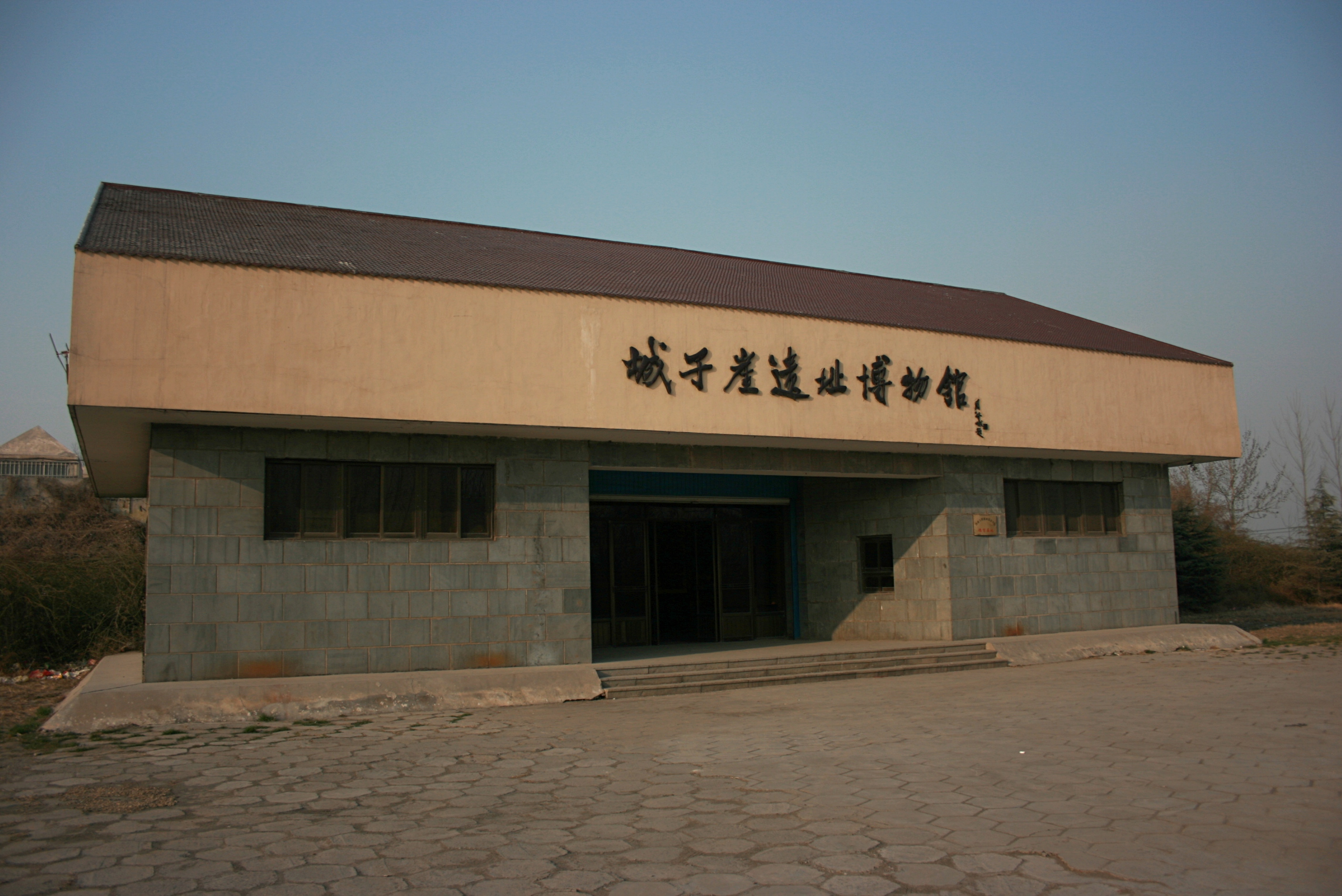 Photograph of the entrance building of the museum at the Chengziya Archaeological Site, between Jinan and Zhangqiu City, Shandong, China.